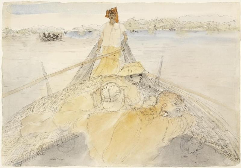 Battle of Arakan, 1943- a Sampan Convoy on the Mayu River image: Three British soldiers on a Burmese sampan with oarsman standing centre of composition